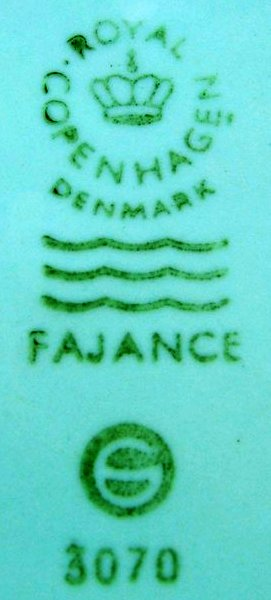 Maker's mark of the Aluminia faience factory in Copenhagen after 1969. Photograph by Lars Poulsen